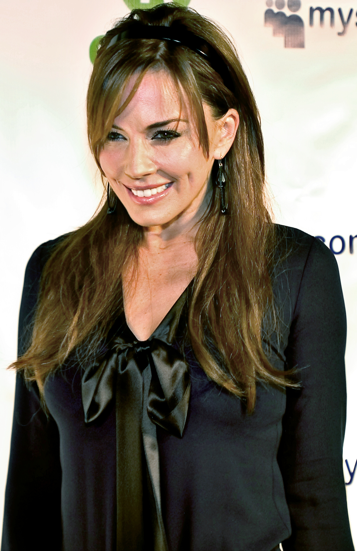 Krista Allen attends the Oxfam America/MySpace Rock for Darfur event. To learn more about Oxfam's work in Darfur, click here